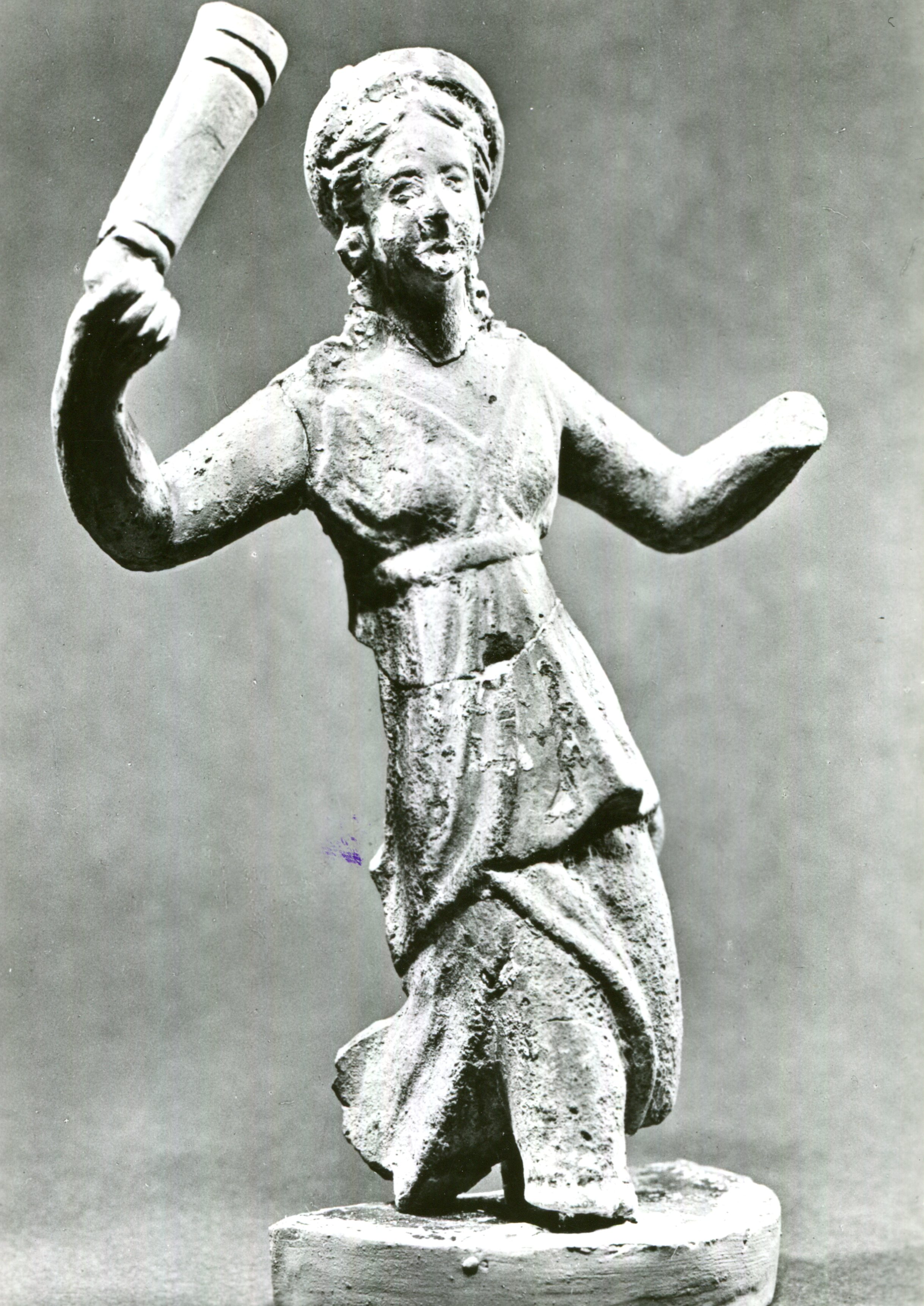 Dancer with a rattle or bell (?). Terracotta figurine, 4th cent. BC, from the museum in Varna